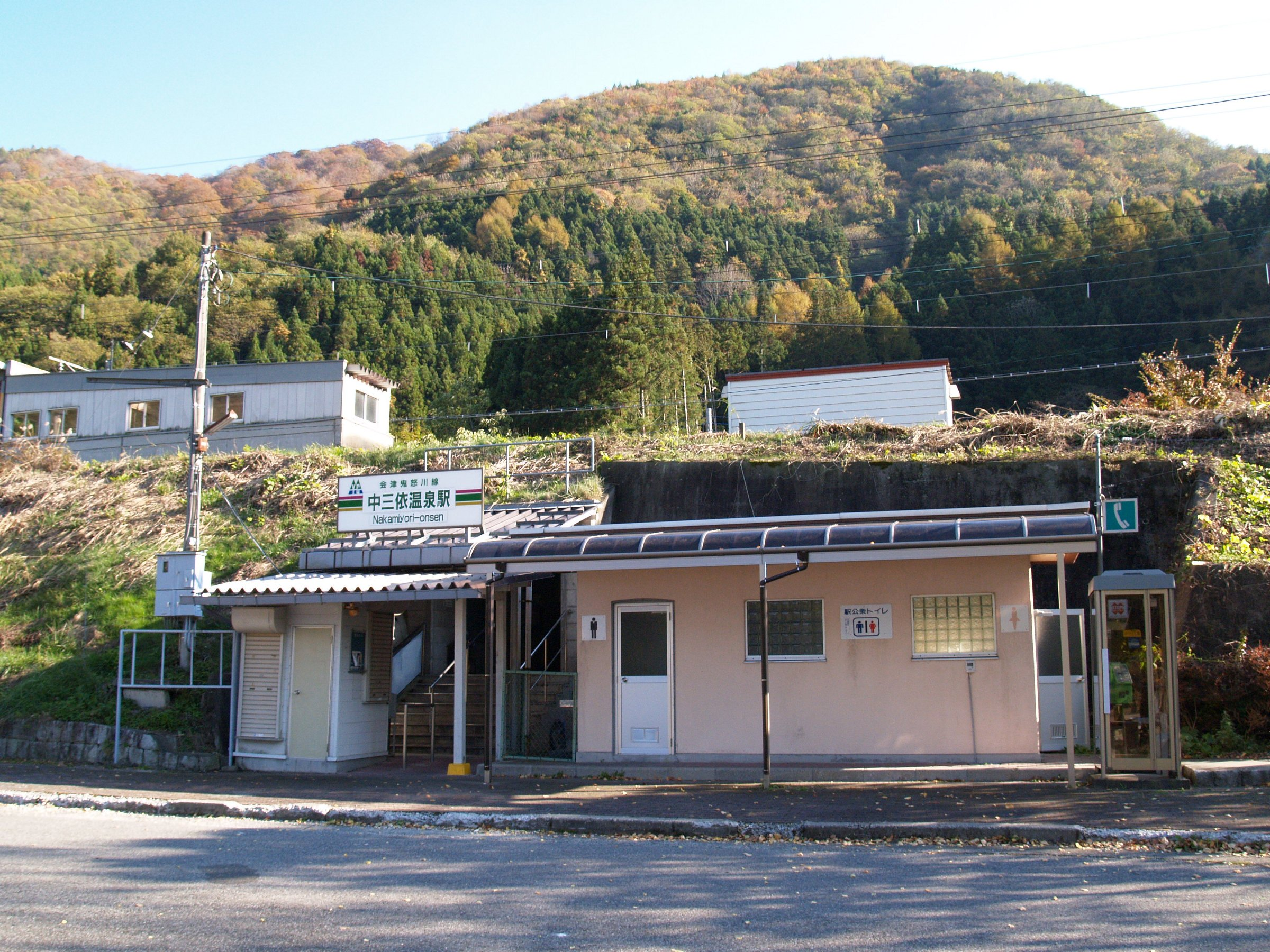 Nakamiyori-Onsen Station, Tochigi Pref., Japan